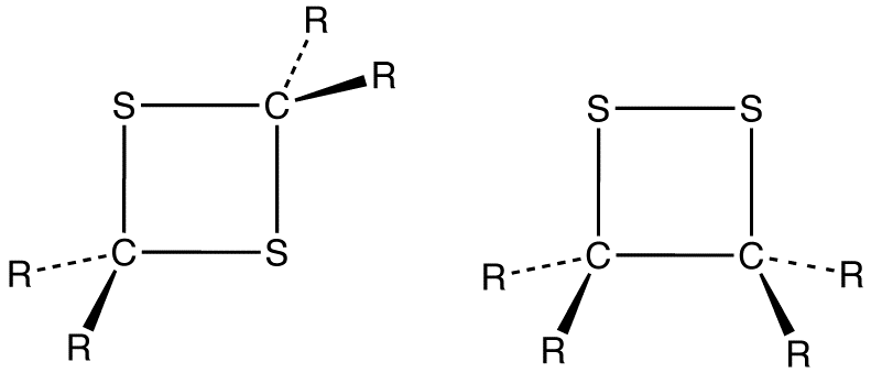 dithetane structures